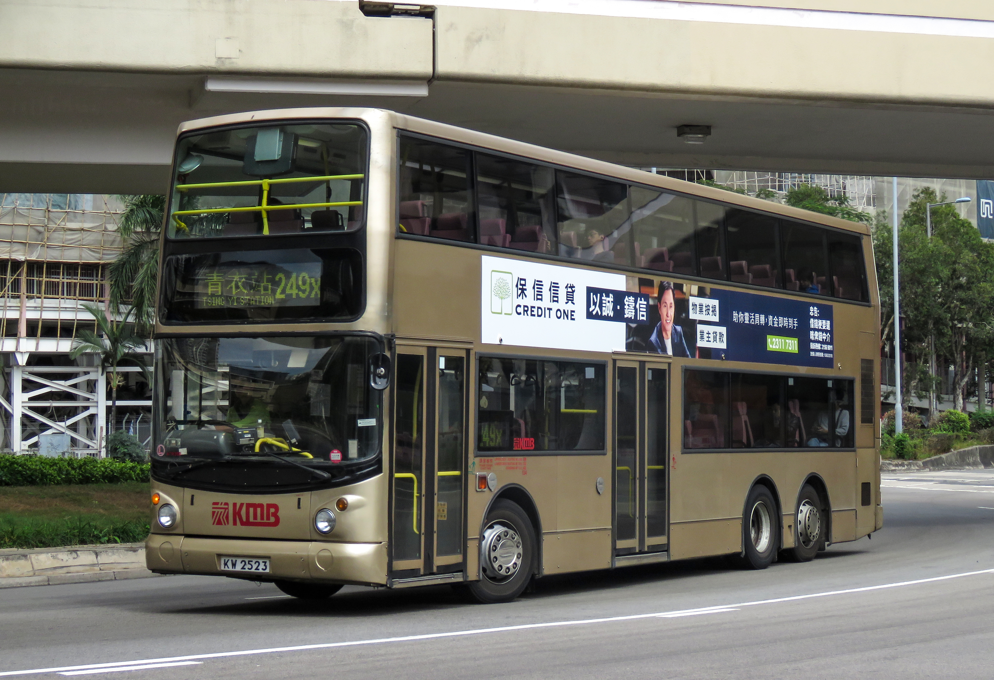 249X still have some Tridents.